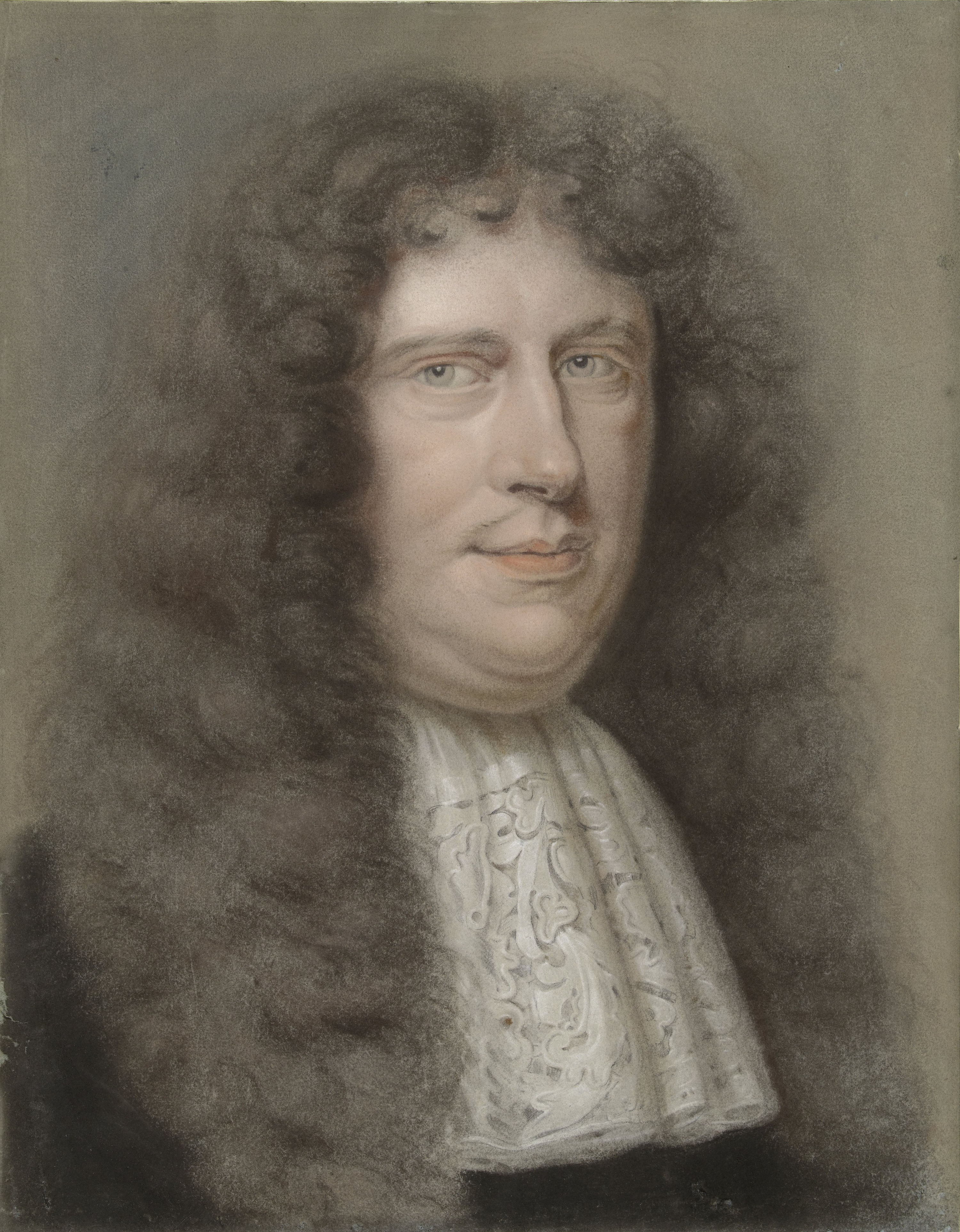 Portrait Count Theodor Heinrich von Strattmann (1637–1693), representative to the peace negotiations at Nijmegen and Chancellor under Emperor Leopold I.